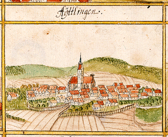 View of Aidlingen from the forest register books created by Andreas Kieser